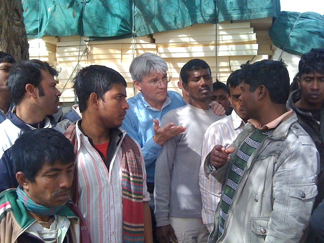 Secretary of State for International Development Andrew Mitchell speaking to Bangladeshi migrant workers about their journey to reach the transit camp in Tunisia from Libya. Many had travelled for days to reach the camp and arrived with little more than the clothes they stood up in. Having slept rough for days, the camp gave them decent shelter and warmth. For more information, please see: ht.ly/48tdc Terms of use This image is posted under a Creative Commons - Attribution Licence, in accordance with the Open Government Licence. You are free to embed, download or otherwise re-use it, as long as you credit the source as 'Department for International Development/Micahael Haig'.